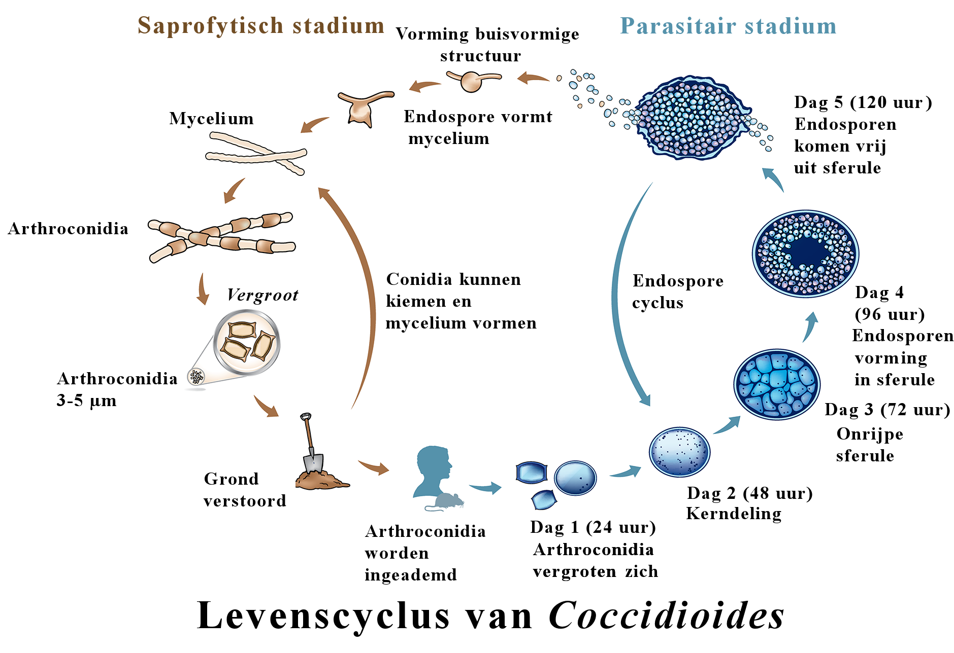 Life cycle of Coccidioides